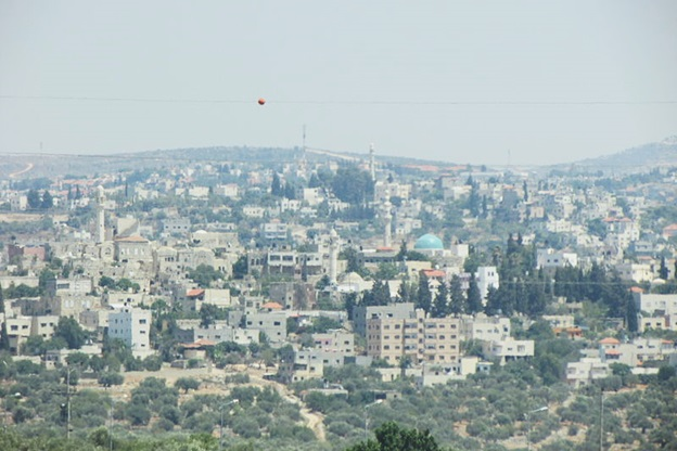 Deir Istiya from the north.